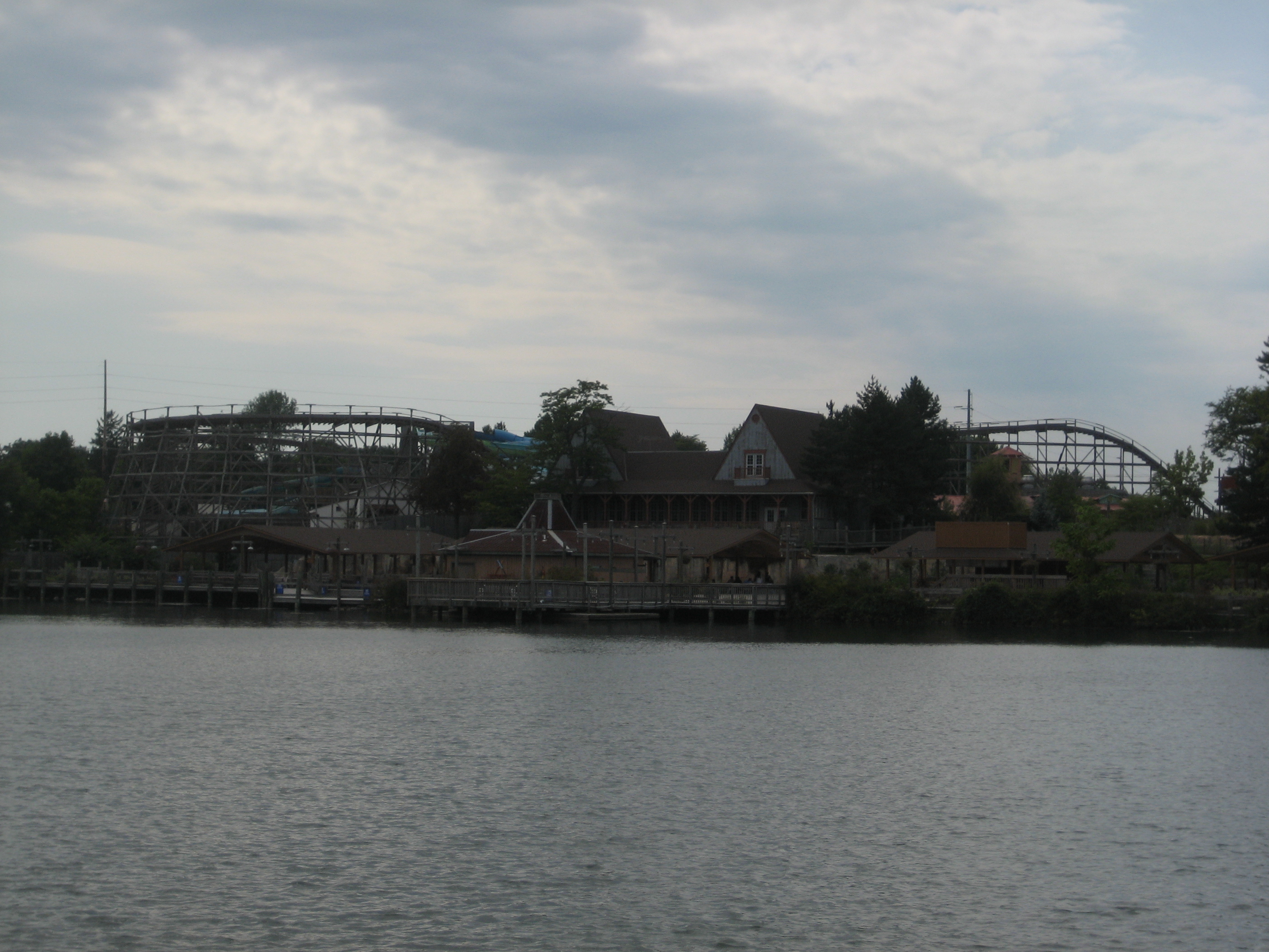 Picture of Big Dipper at Geauga Lake amusement park.